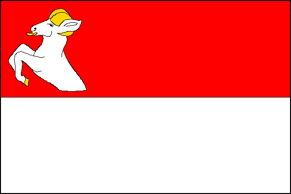 Municipal flag of Poříčí nad Sázavou village, Benešov District, Czech Republic.